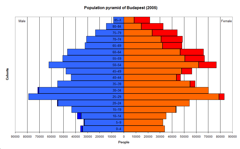 Population pyramid of Budapest (according to the 2005 microcensus)